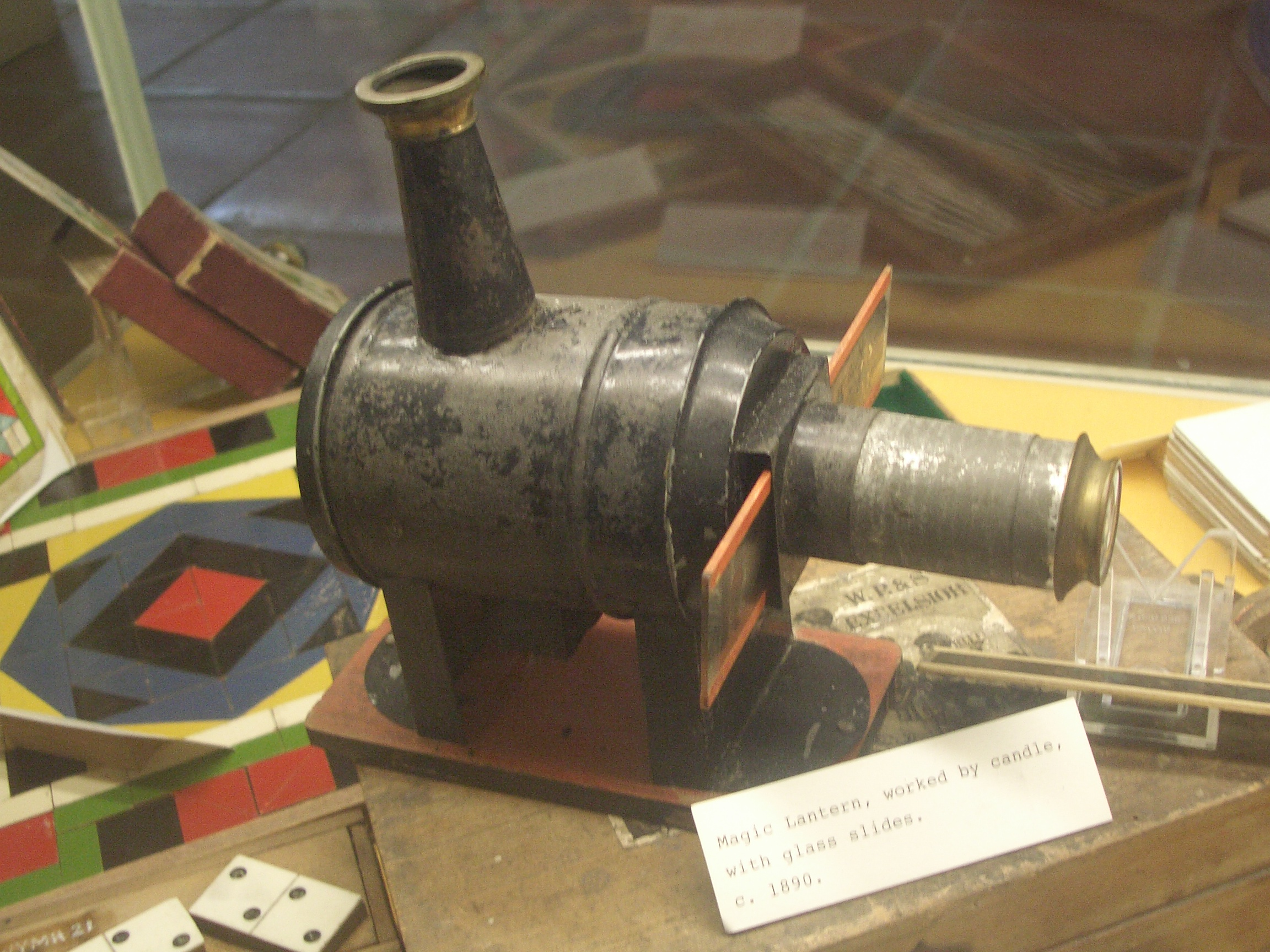 Magic lantern, taken at Wymonham Museum, Norfolk, UK.